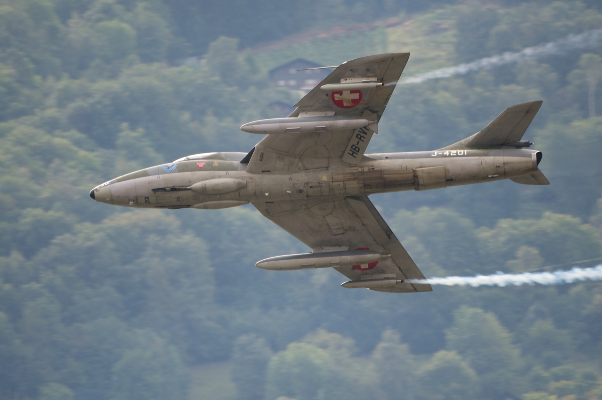 Hawker Hunter, ex-Swiss Air Force, Sion Airshow 2011.